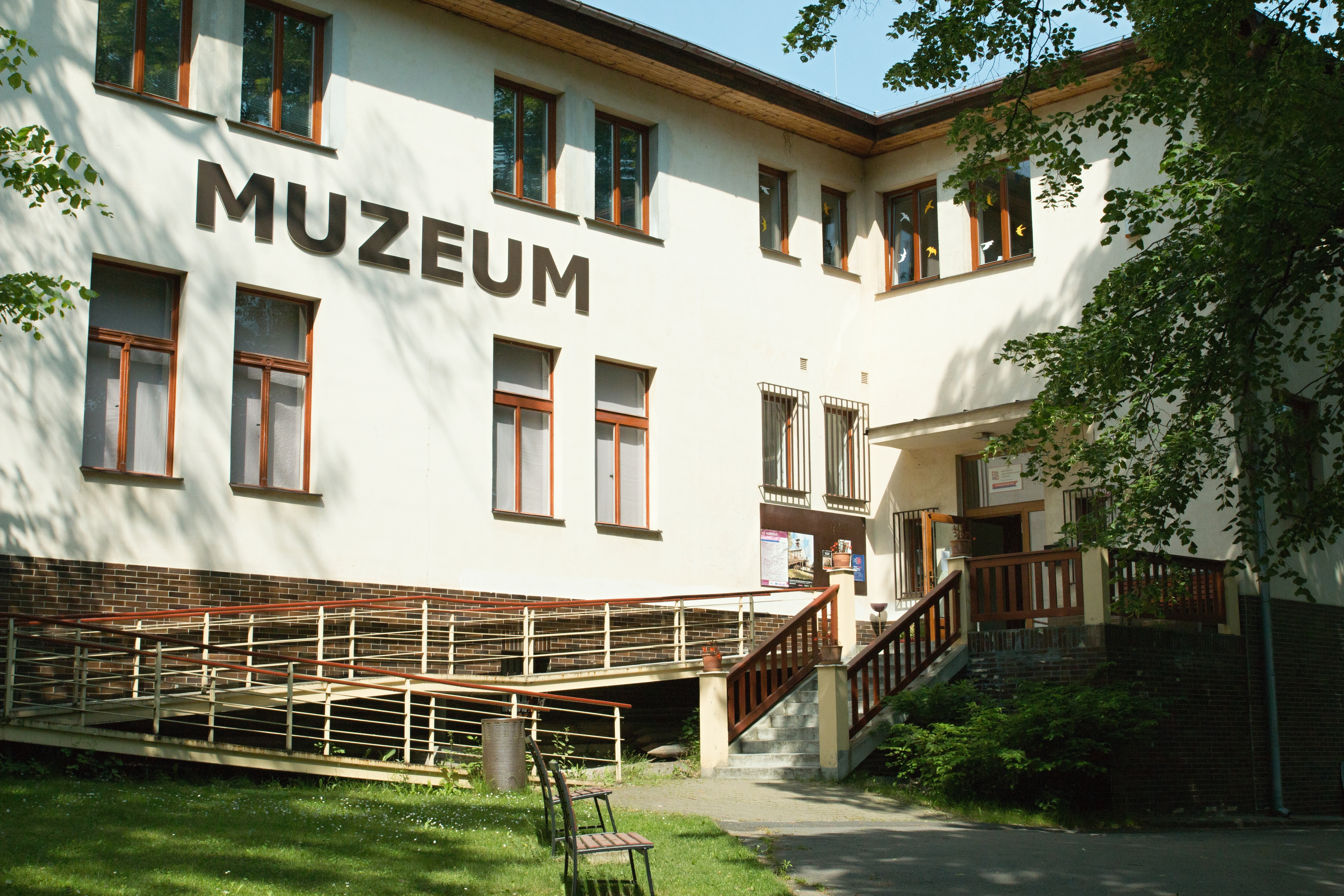 The Sládeček Museum of Local History in Kladno. Entrance to the building.